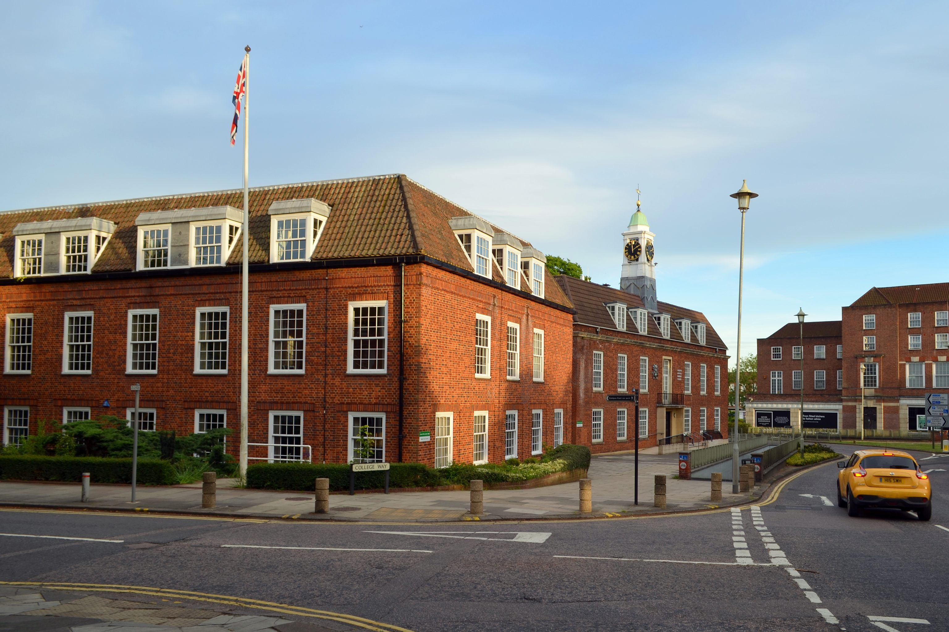 Welwyn Hatfield Borough Council offices in May 2017.